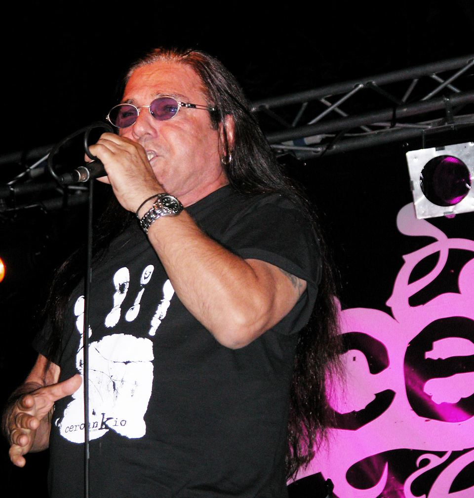 Pino Scotto in concert to the annual Festival ceroanKio of Asti - August, 29 2009